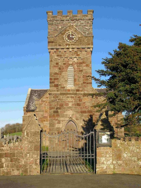 Church at Brynsiencyn